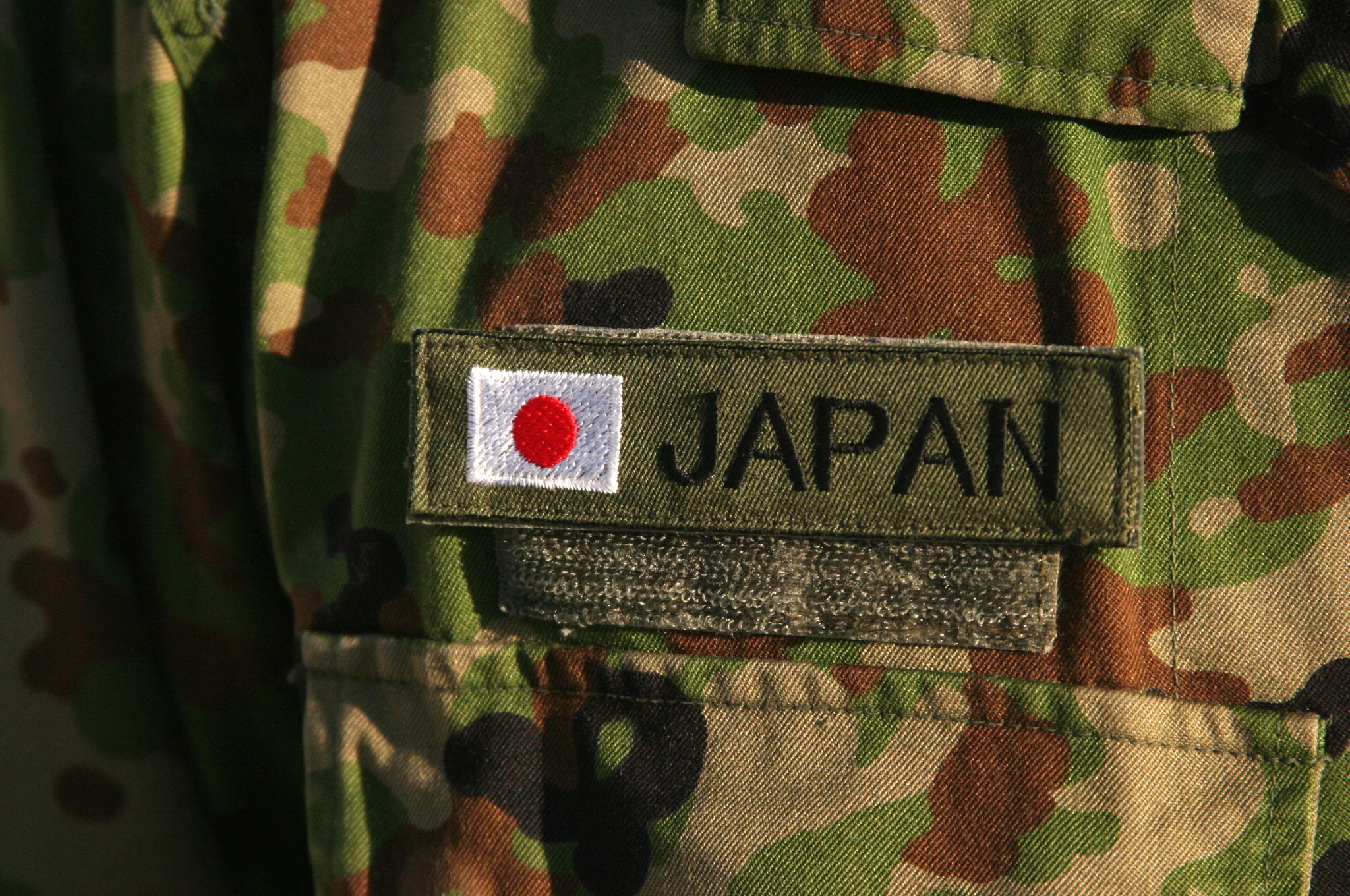 NAVAL AMPHIBIOUS BASE, CORONADO ISLAND, Calif. – A company of 125 Japanese Ground Self Defense soldiers conducted Exercise Iron Fist alongside 30 Marines and sailors with Expeditionary Warfare Training Group Pacific, 1st Marine Expeditionary Force Jan. 9 – 27. The joint venture focused on amphibious warfare and was designed to improve the Japanese soldiers’ ability to move from ship to shore. Photo by: Cpl. Tom Sloan Photo ID: 200612612438 Submitting Unit: MCB Camp Pendleton Photo Date:01/13/2006